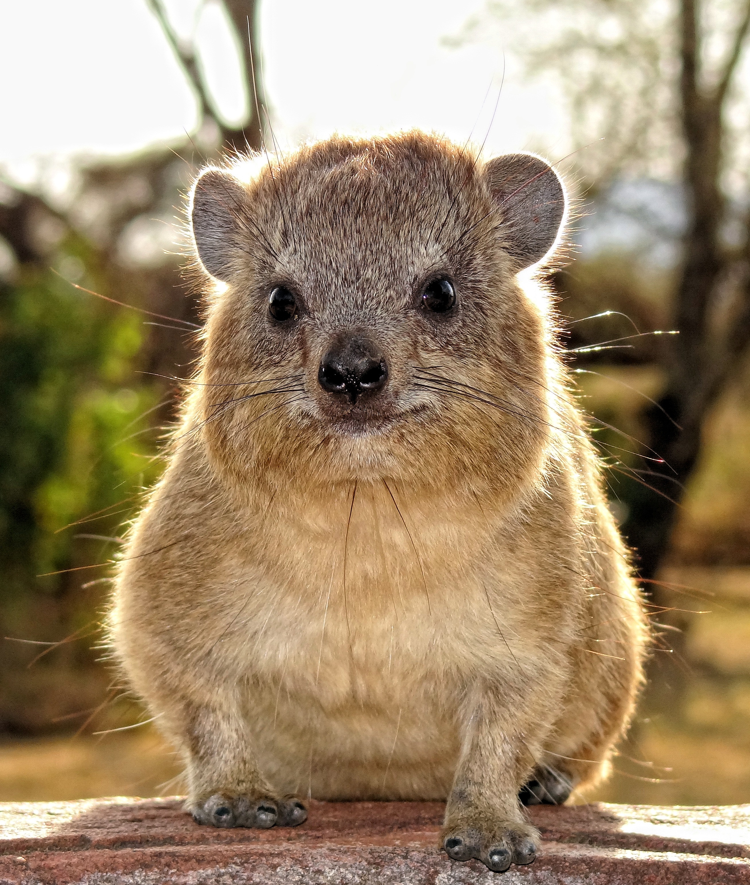 A frontal view of a rock hyrax at the Serengeti Visitor's Centre in Tanzania.